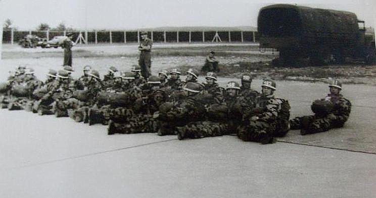 Waiting for the use, Airborne Special Equipment Company 9, airfield Penzing - 1958